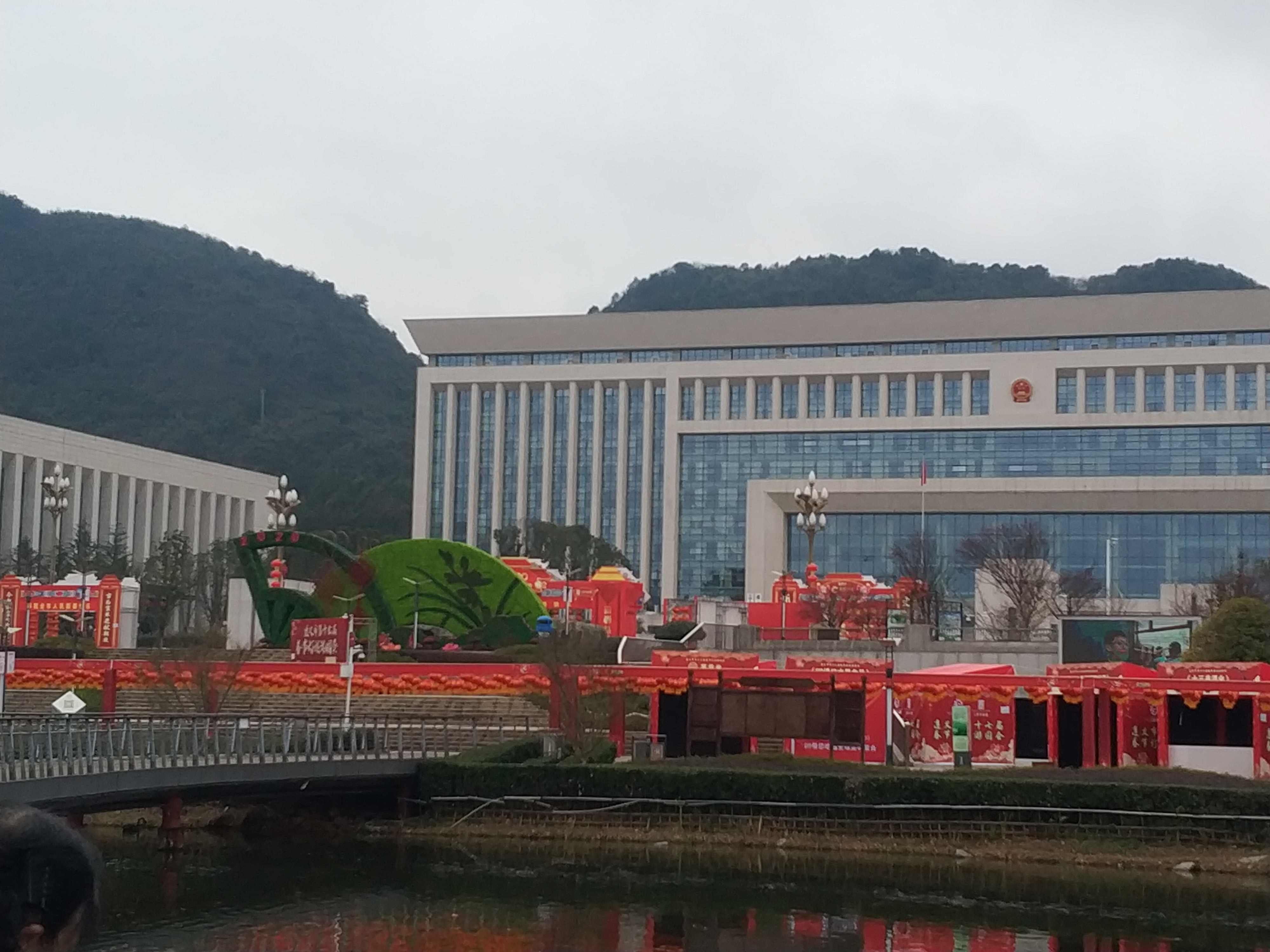 2020年1月24日，贵州省启动突发公共卫生事件一级响应，所有活动被紧急叫停。如图是遵义市政府广场上遭到搁置的活动设施